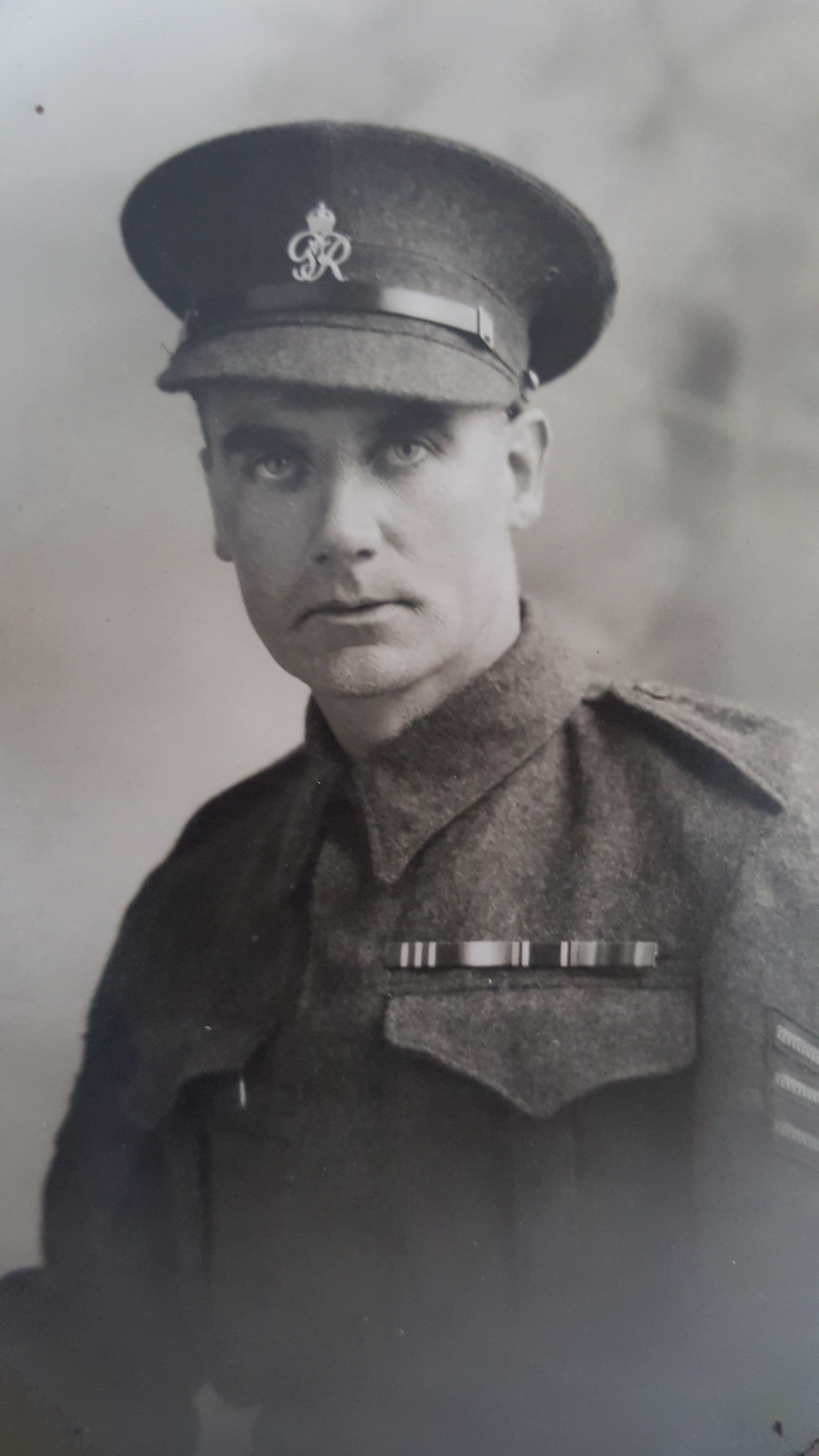 Ted Clack in 1940, prior to deployment to France with the BEF.